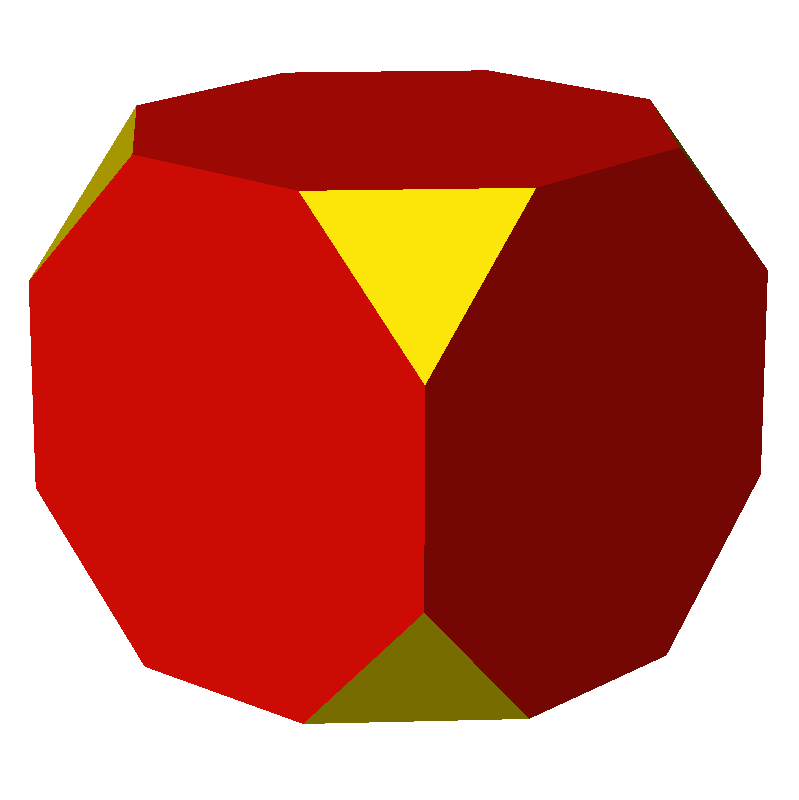 Truncated cube